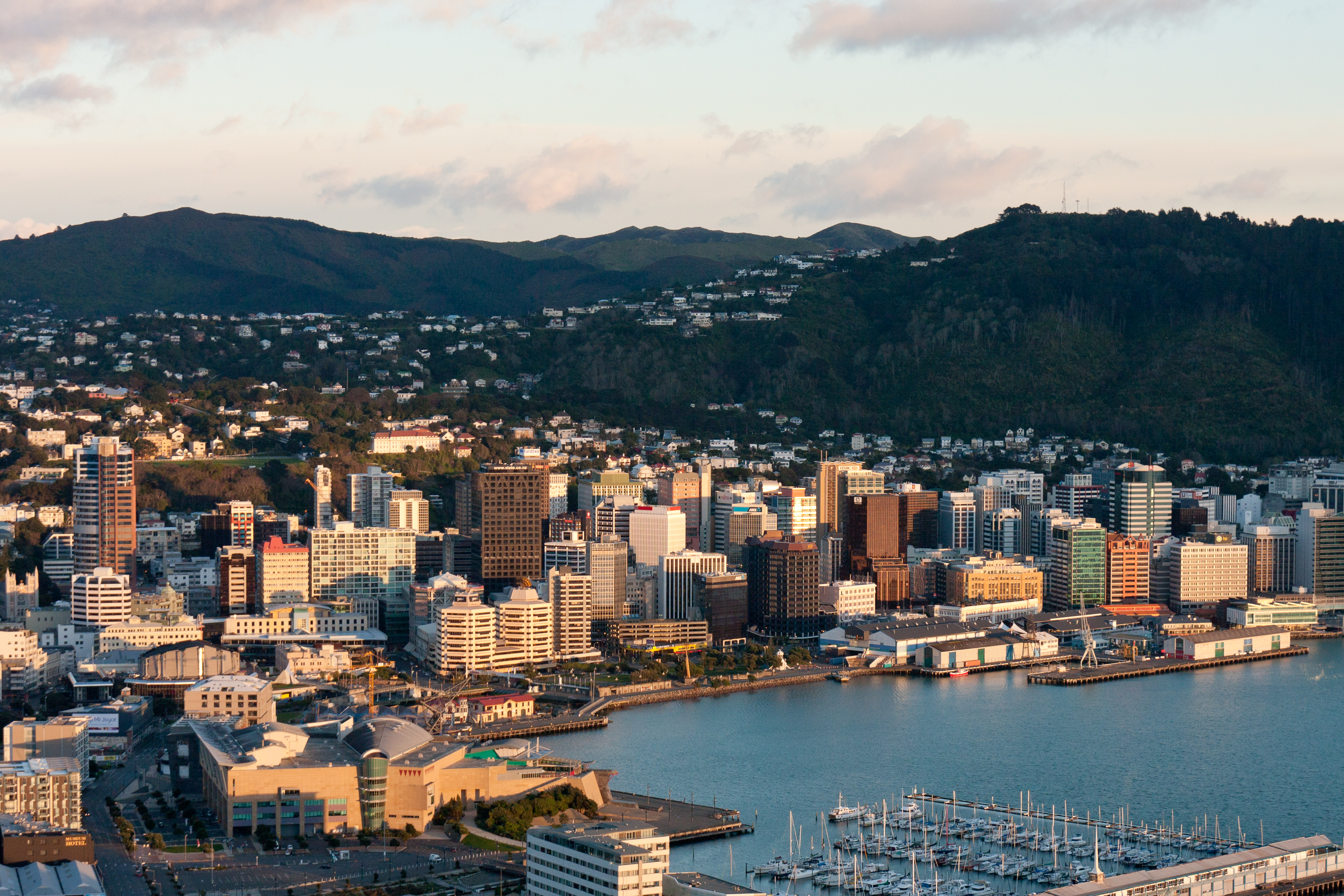 Panorama of Wellington at dawn.